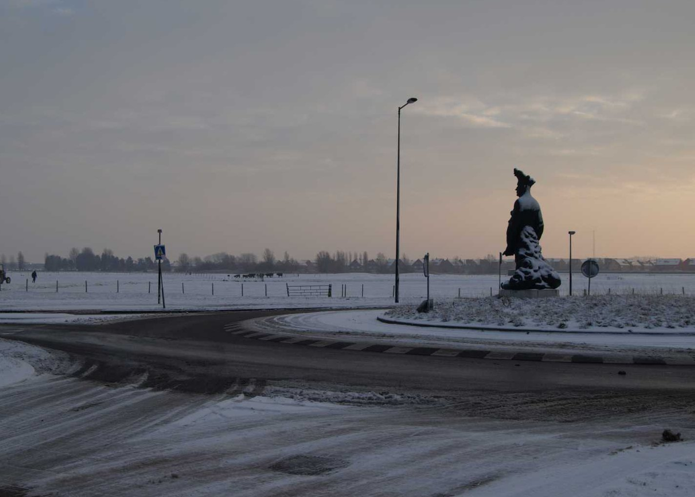 Ruïne Castle Oud Haerlem